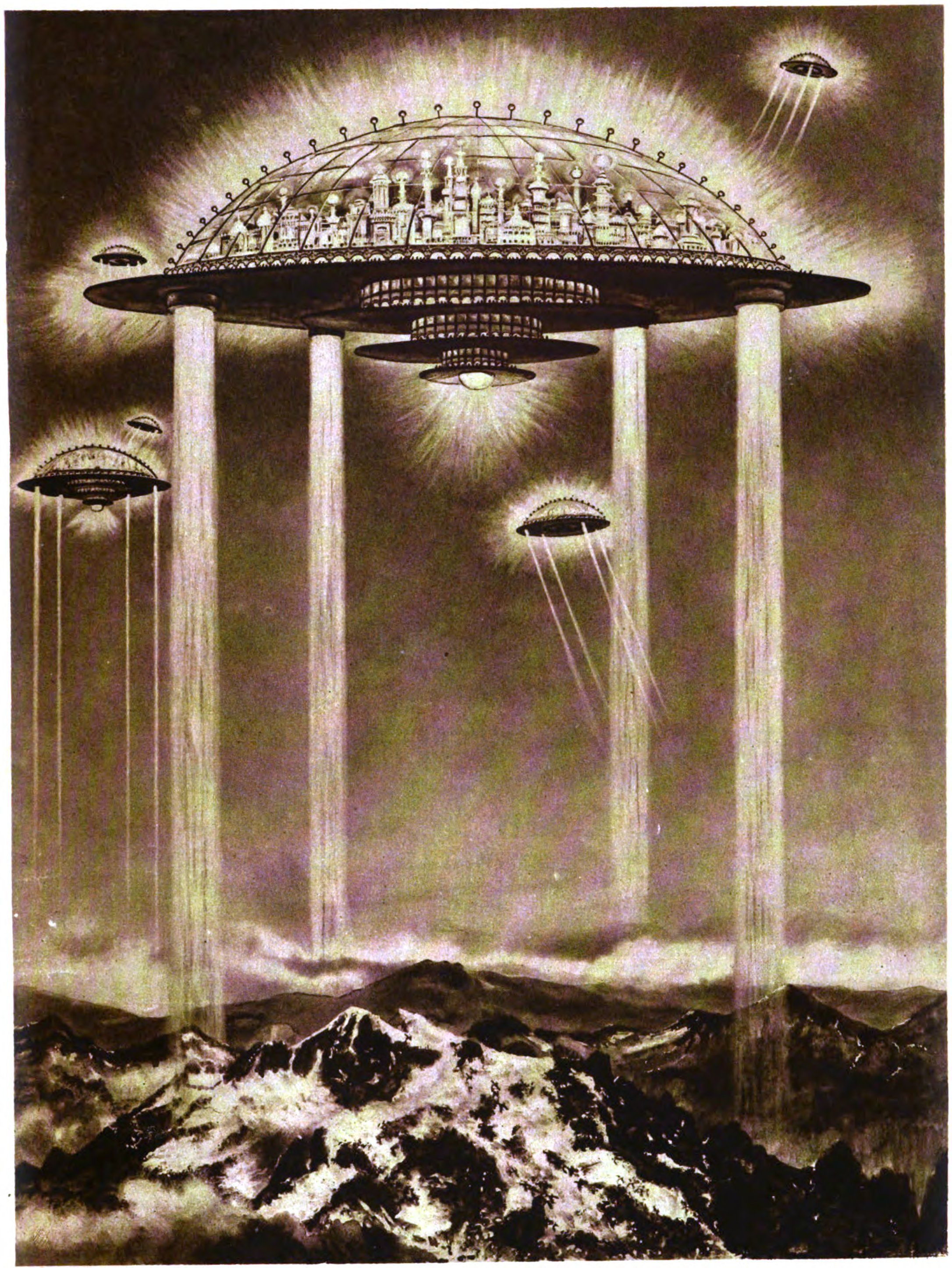 Illustration of Gernsback's speculative article on what cities will be like in the future. Caption: "The city of the future, 10,000 years hence, will not be located on the surface of the Earth. It will be floating up miles high, and such things as snow, rain, and storms will be unknown to the city dwellers of the future. It will have perpetual sunlight, and weather will never bother our future citizens. Just as our leviathans of the sea are built to remain on top of the water at all times, so the floating city of the future will remain afloat constantly, supported by shafts of electro-magnetic rays, which, nullifying gravity, keep the city raised up by reaction. The city dweller of the future will not be bothered much by diseases such as tuberculosis, because all of these are now transmitted by the high density of the air near the surface of the Earth. Three or four miles up bacteria are not so common as they are near the surface."